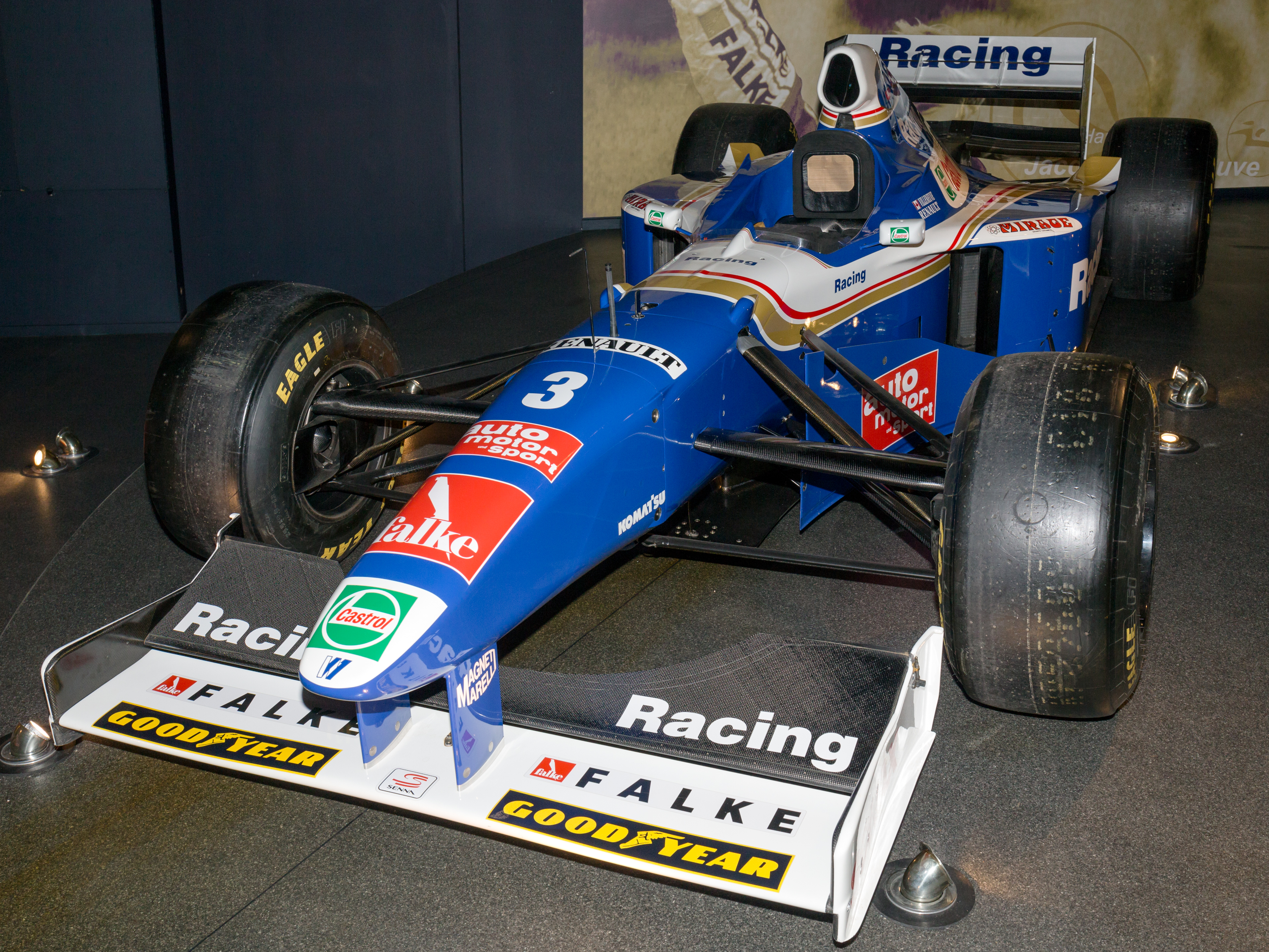 Williams Conference Centre (Grove): Williams FW19 of Jacques Villeneuve